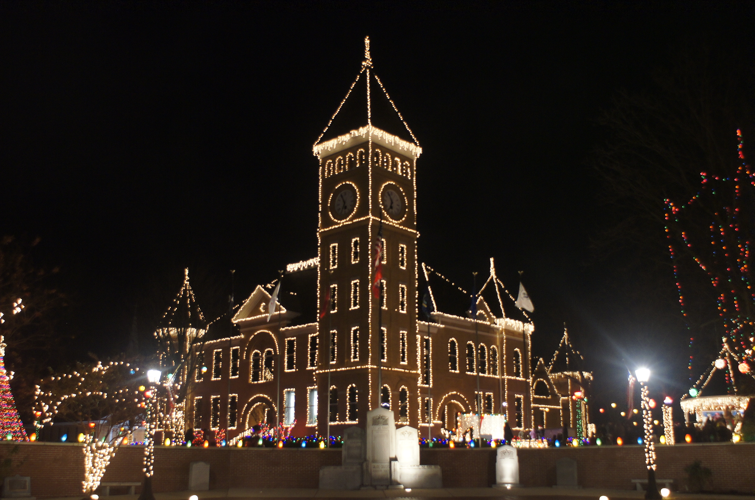 Saline County Courthouse